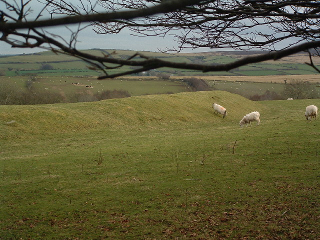 Roborough Castle. Sheep now invade this bronze age enclosure.